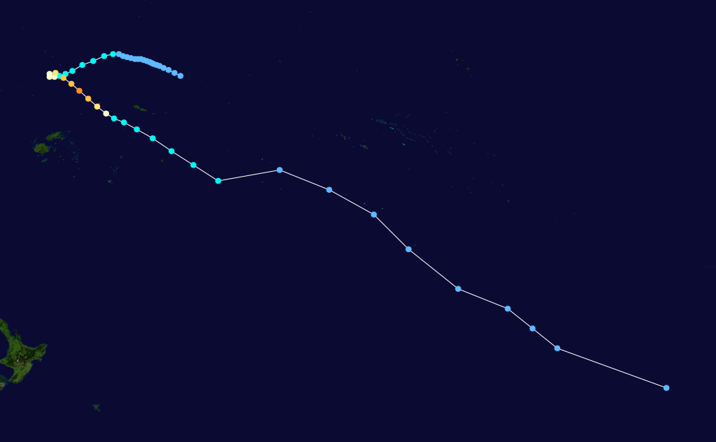 Cyclone Keli (1997) track. Uses the color scheme from the Saffir-Simpson Hurricane Scale.